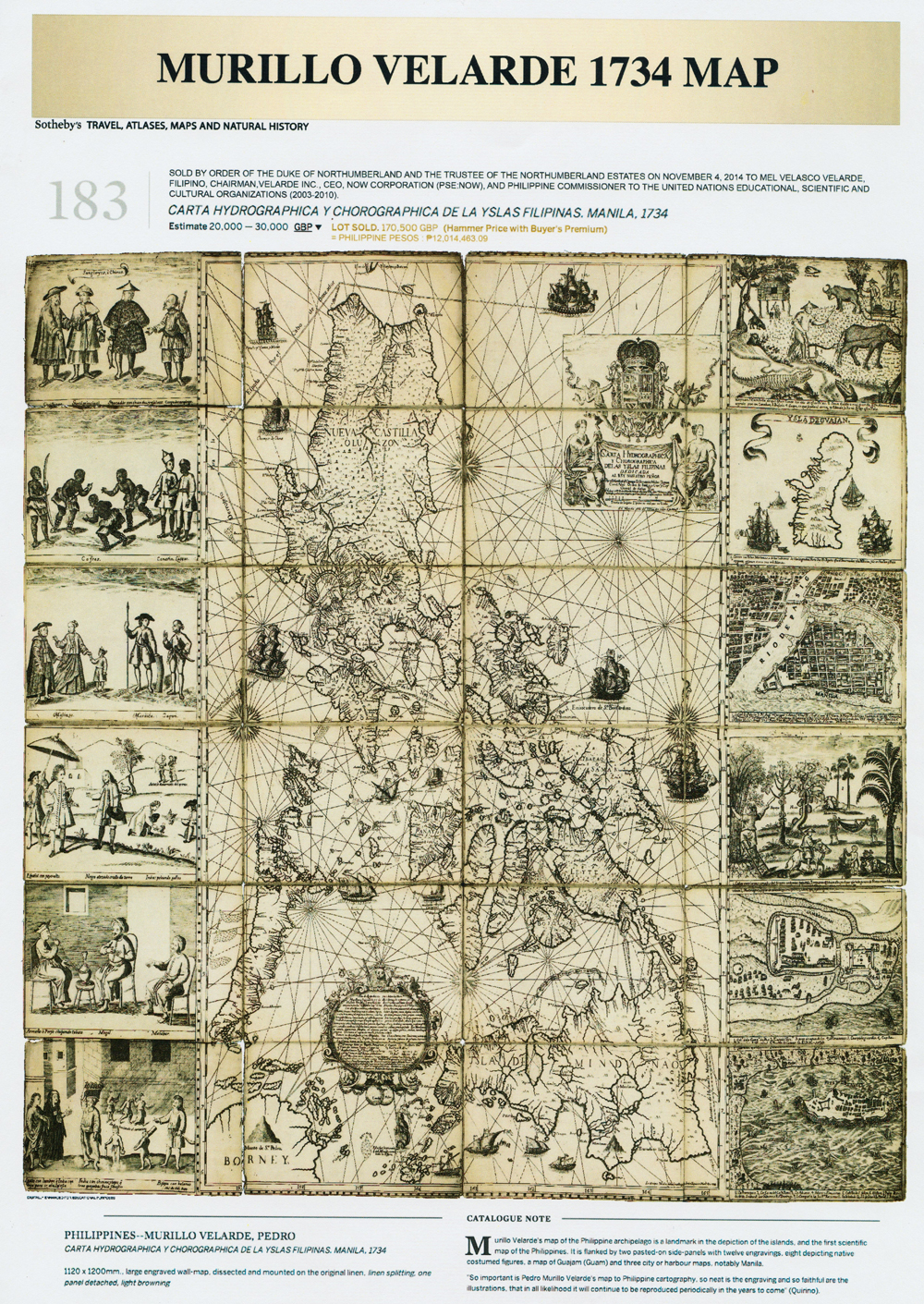 Replica given to the Philippine Army by Mel Velarde.